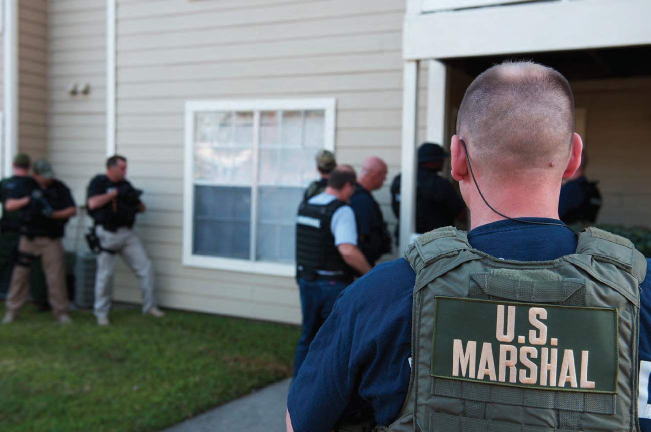 United States Marshals entering a building.